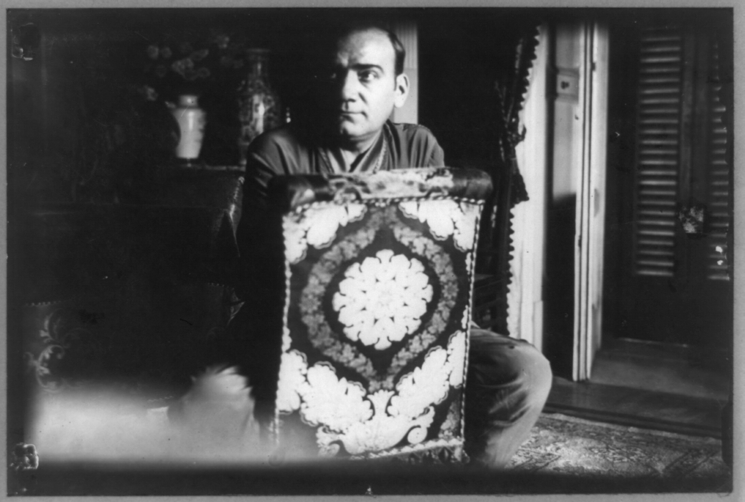 Three-quarter length portrait, seated on chair with back of the chair in front of him, facing left, dressed in pajamas, in his apartment at the Hotel Vesuve, where he died a few days after.